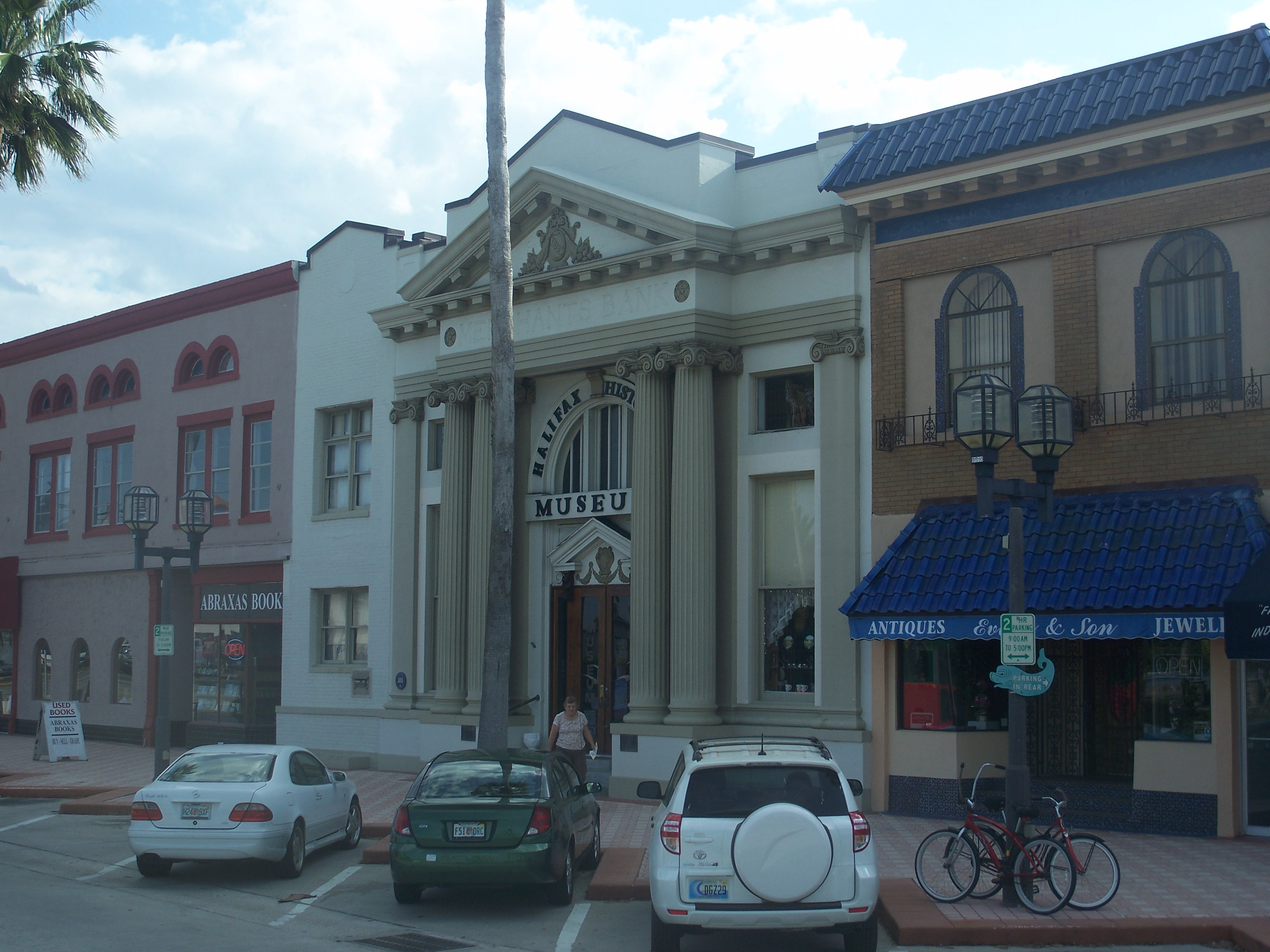 Daytona Beach, Florida: South Beach Street Historic District: Merchants Bank Building, now home of the Halifax Historical Museum